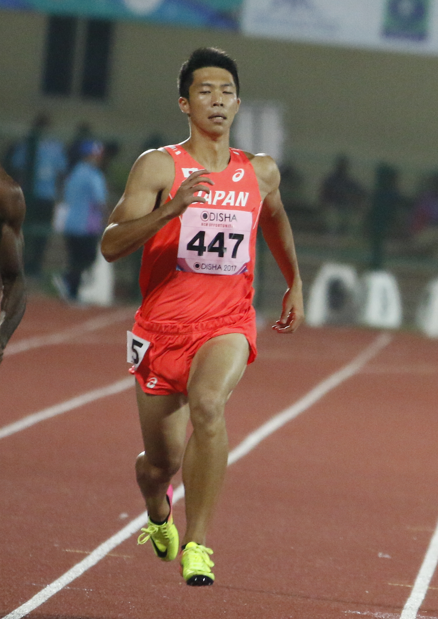 Athletes during 22nd Asian Athletics Championships in Bhubaneswar.